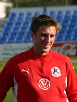 Guðmundur Steinarsson, professional football player.